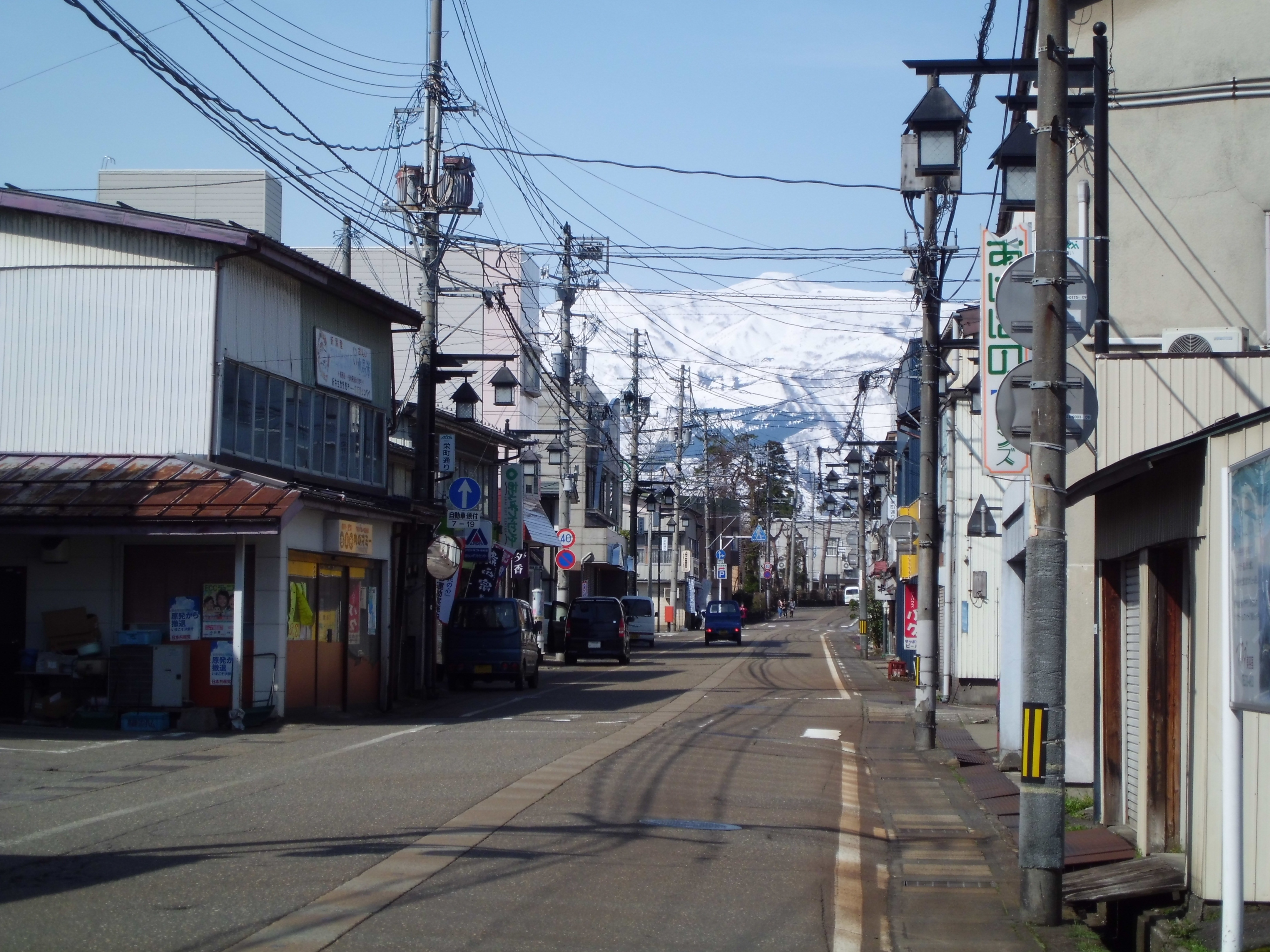 Niigata prefectural road 125 Arai Station line. Looking west from the station in Myoko city, Niigata prefecture, Japan.